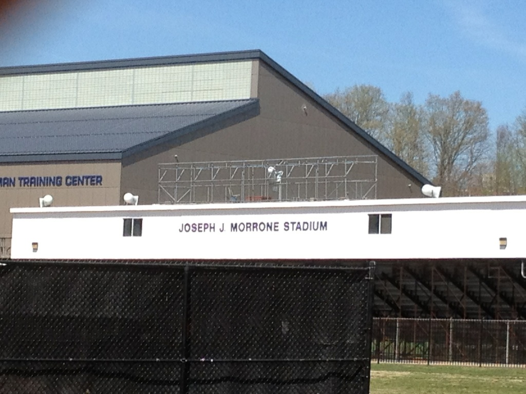 A view of the exterior of Joseph J. Morrone Stadium in Storrs.